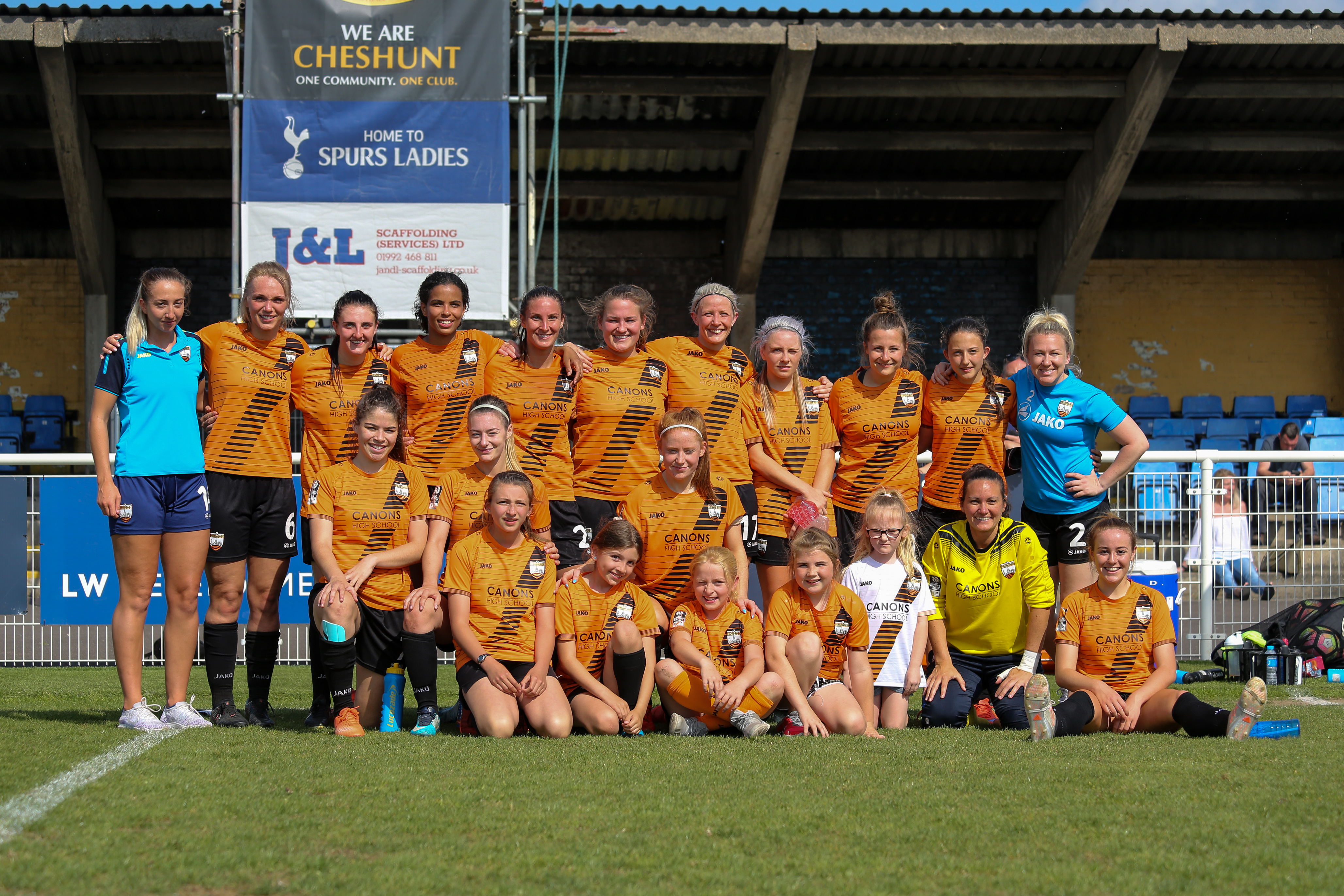 Tottenham Hotspur LFC v London Bees, 20 May 2018 - London Bees